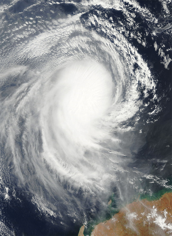 26 December 2008 MODIS Terra satellite image of Severe Tropical Cyclone Billy over the Indian Ocean off Northwest Western Australia.